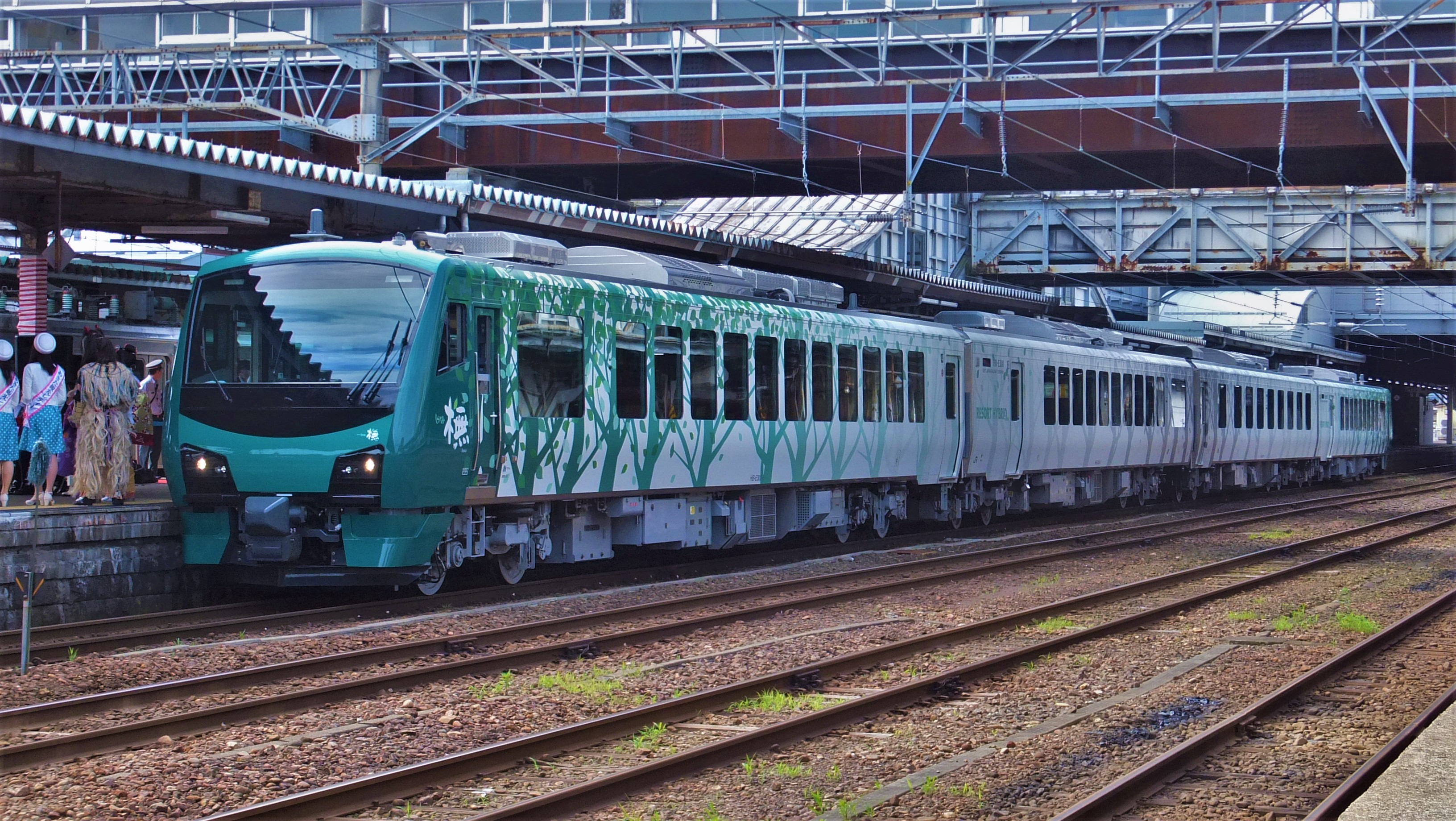 The JR East HB-E300 series Resort Shirakami - Buna 4-car DMU set at Akita Station